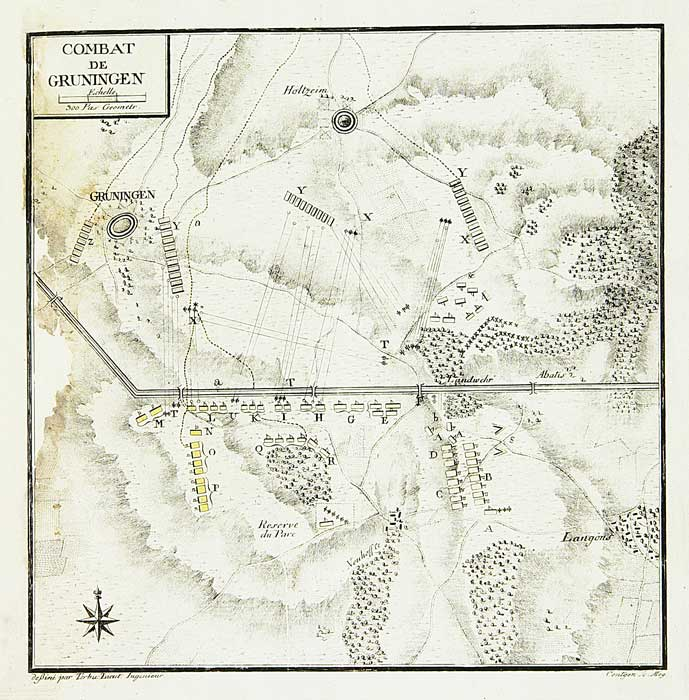 Combat de Gruningen. The map is oriented to the east, north is to the left.